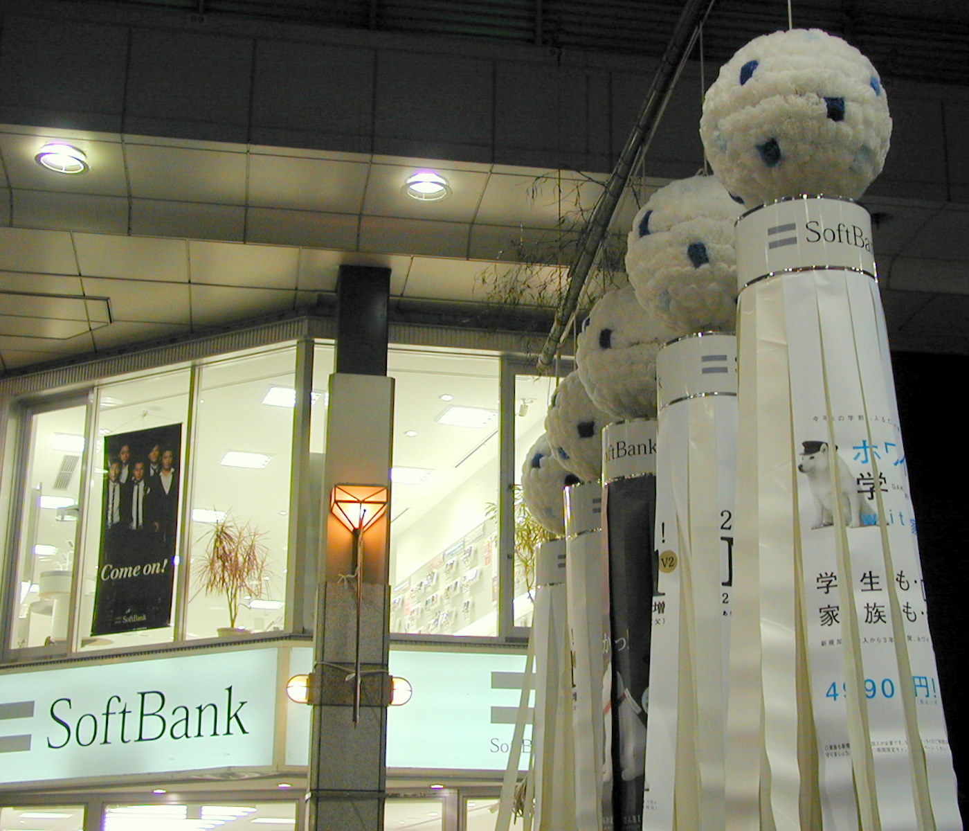 SoftBank at Sendai CLIS Road & the decorations of Sendai Tanabata Festival (the Star Festival of Sendai)